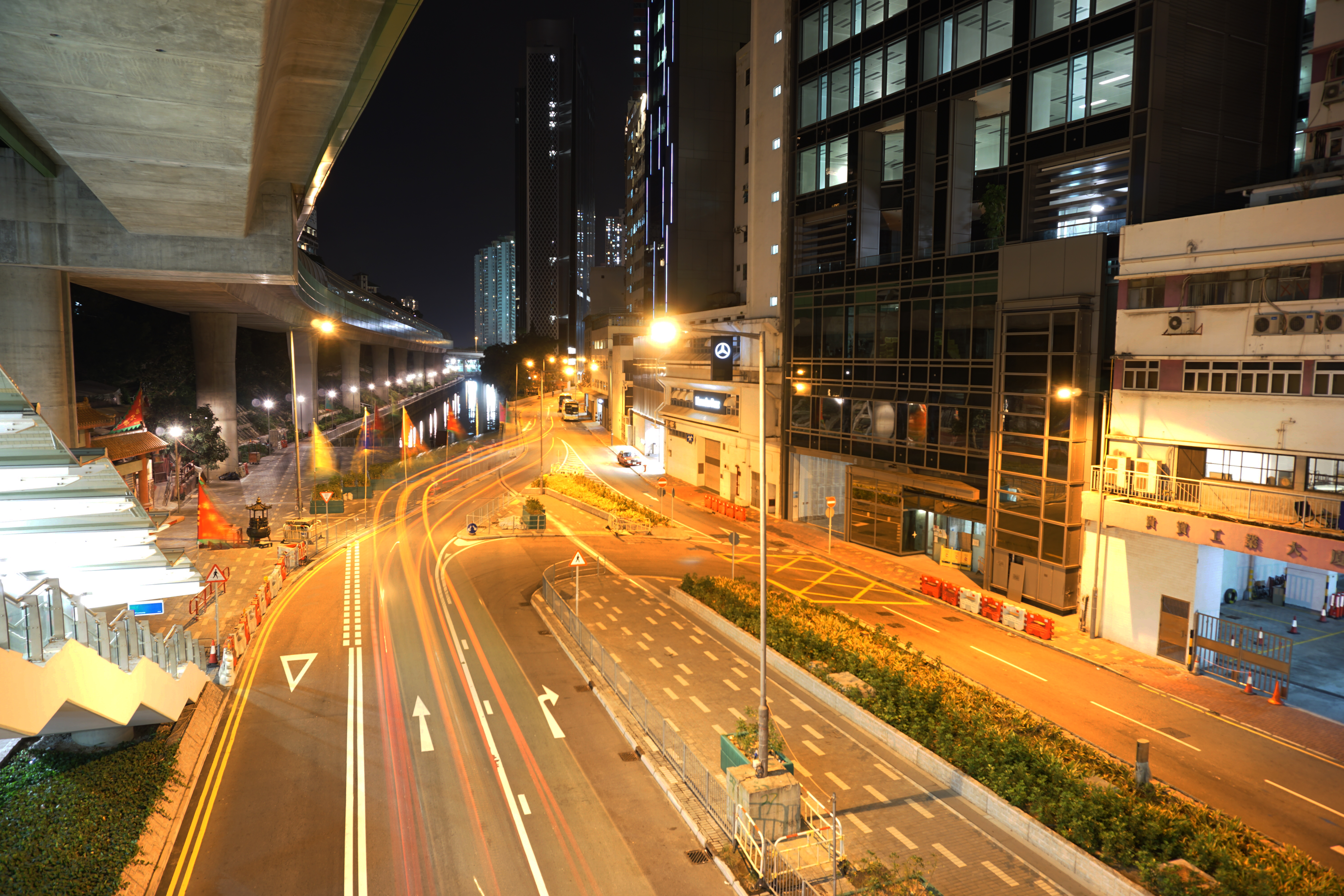 Heung Yip Road in Wong Chuk Hang, Hong Kong.